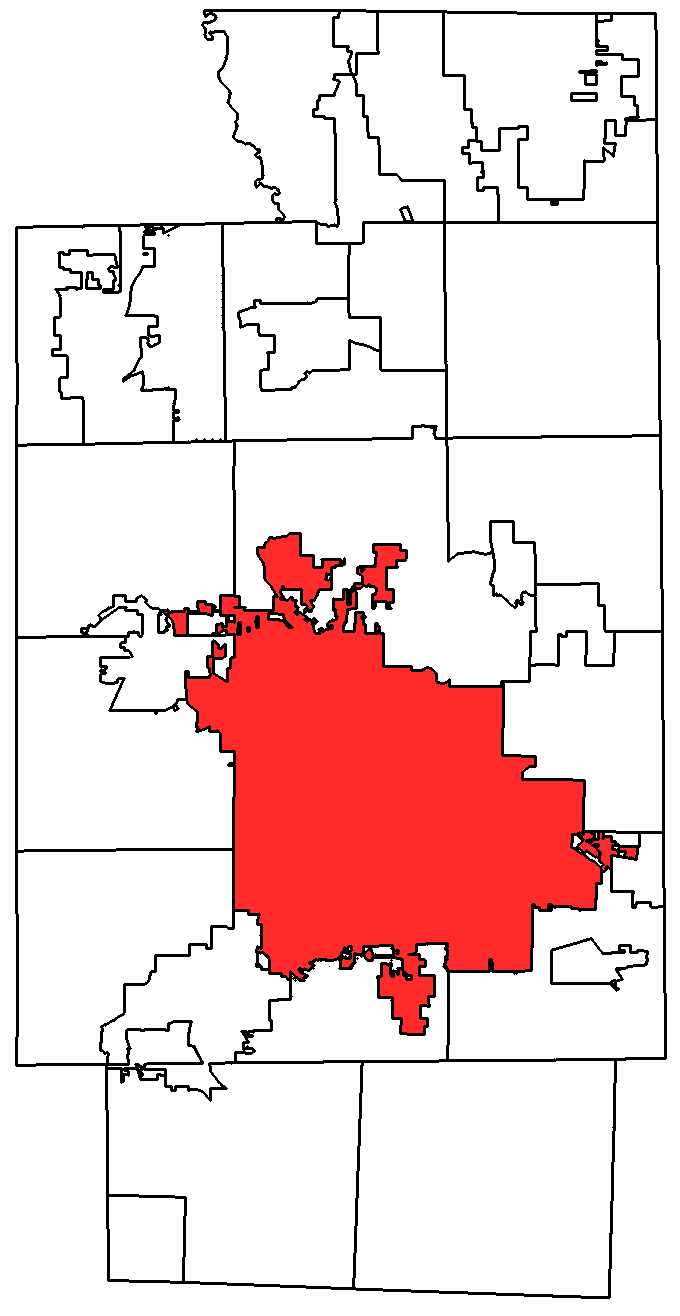 Akron Map showing location of community within Summit County, Ohio, United States. Created by DangApricot from map information provided by Summit County parcel maps.